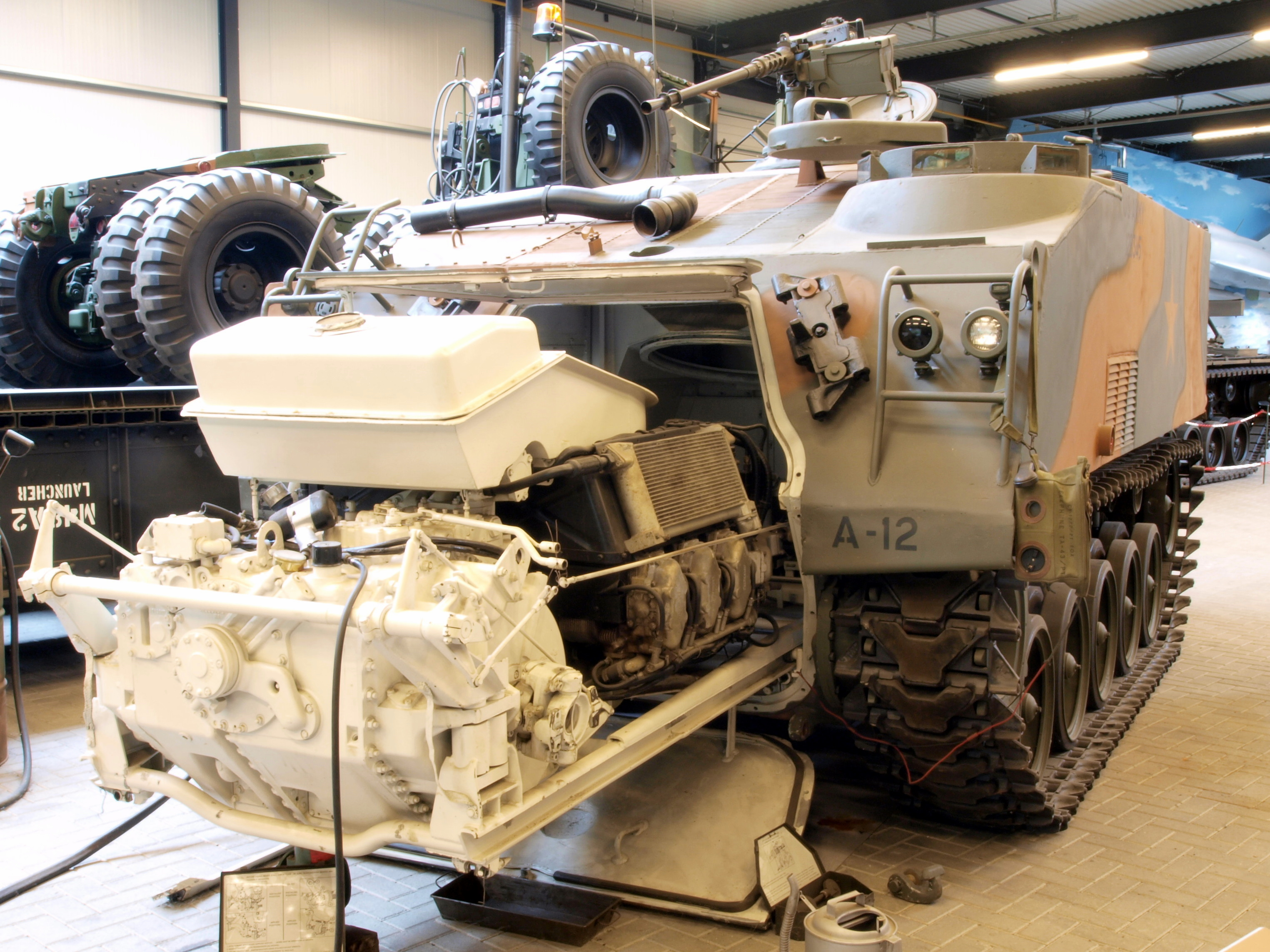 Photographed at the Marshallmuseum - Liberty Park - Oorlogsmuseum Overloon, The Netherlands.